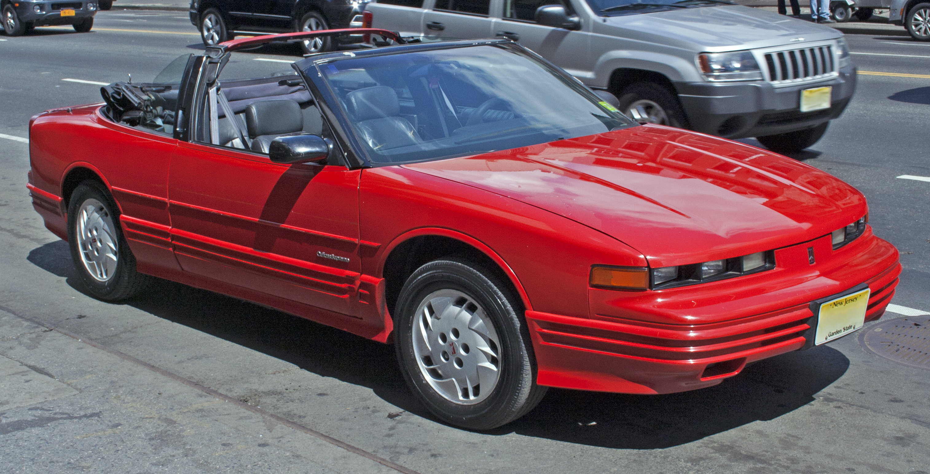 Oldsmobile Cutlass Supreme Convertible, top down